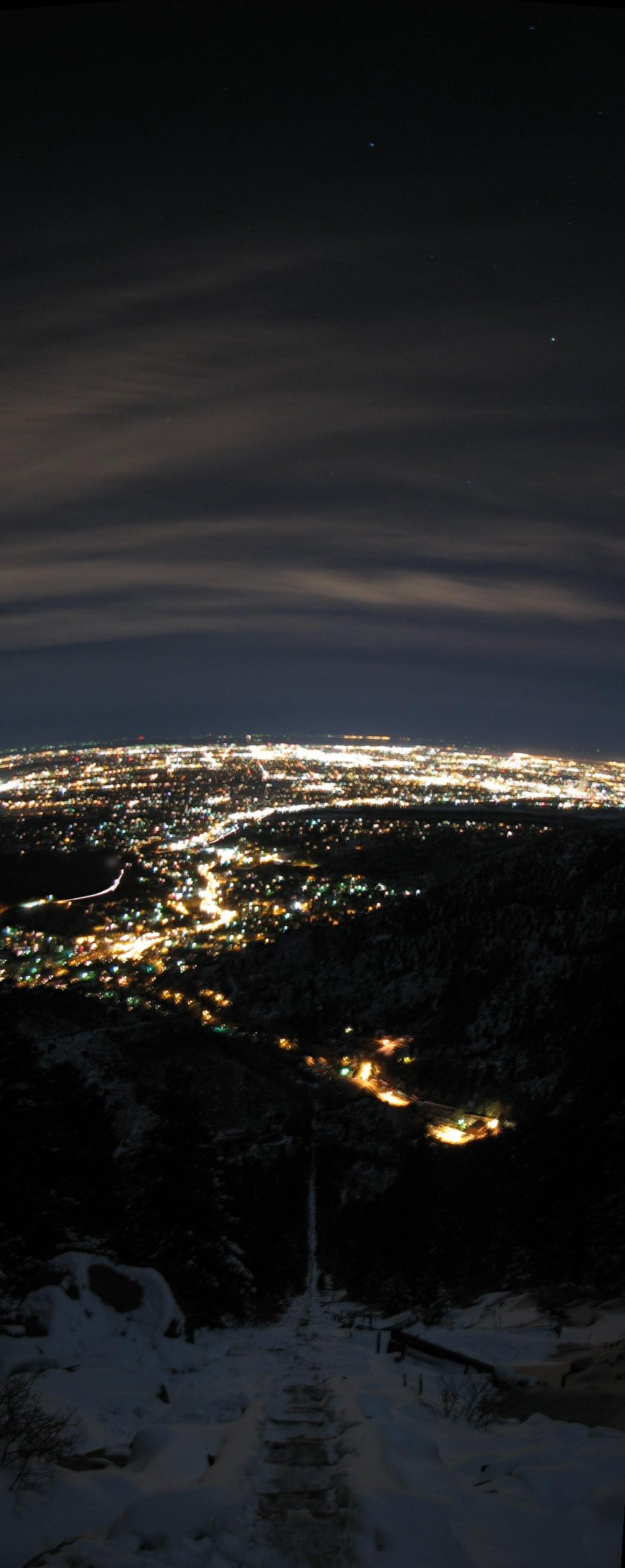 A night panorama of Colorado Springs from midway up the Manitou Incline